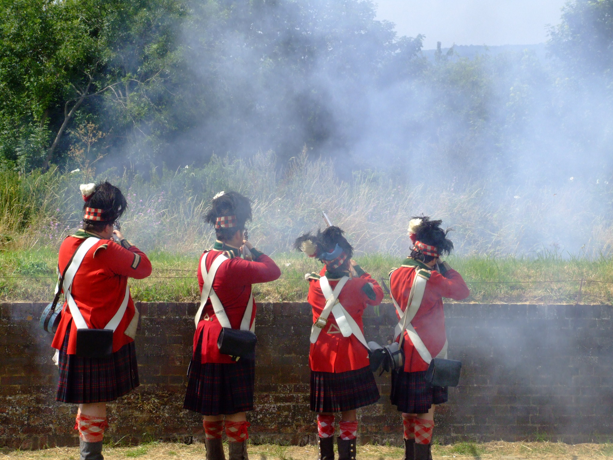 Fort Amherst defends Chatham Dockyard in Kent. Historical re-enactors representing a Highland regiment of foot. Firing.